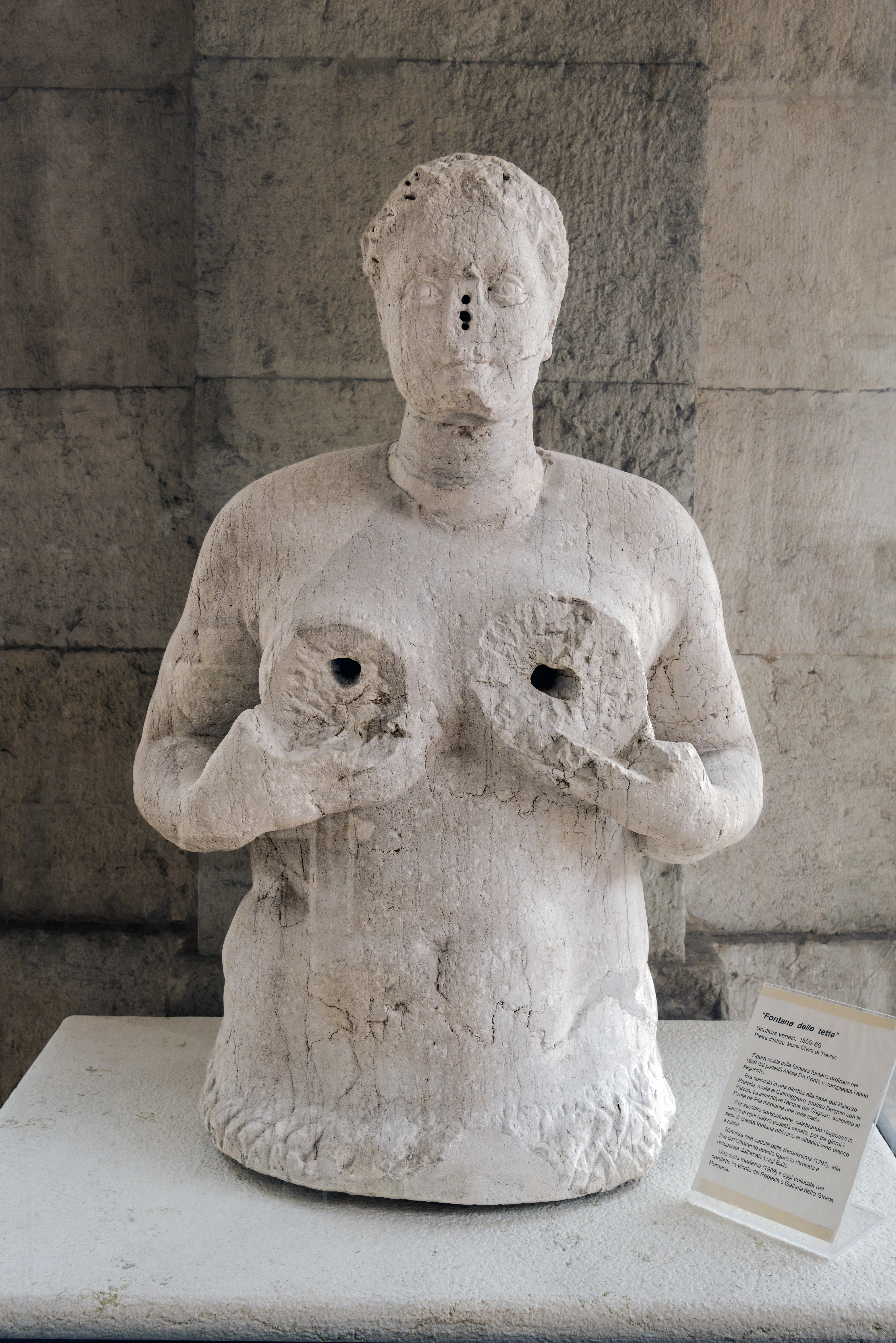 Civic Museums of Treviso - Venetian sculptor, 1559-1560 - Istrian stone Figure mutilates the famous fountain commissioned in 1559 by the mayor Alvise Da Ponte and completed the following year. She was placed in a niche at the base of the Praetorian Palace, the face of the Calmaggiore at the corner of the square. The water came from Cagnan, taken from 'Ponte de Pria' 'through' 'roda mata'. The age-old tradition, celebrating the inauguration of each new mayor of Venice, vouliat that for three days the breasts of this fountain, offer citizens of white and red wine. She disappeared in the fall of the Serenissima (1797). At the end of the nineteenth century, she was found and recovered by Father Luigi Bailo founded the Museum of Treviso. A modern copy (1989) is now in the courtyard between the street and Podesta gallery of Strada Romana .